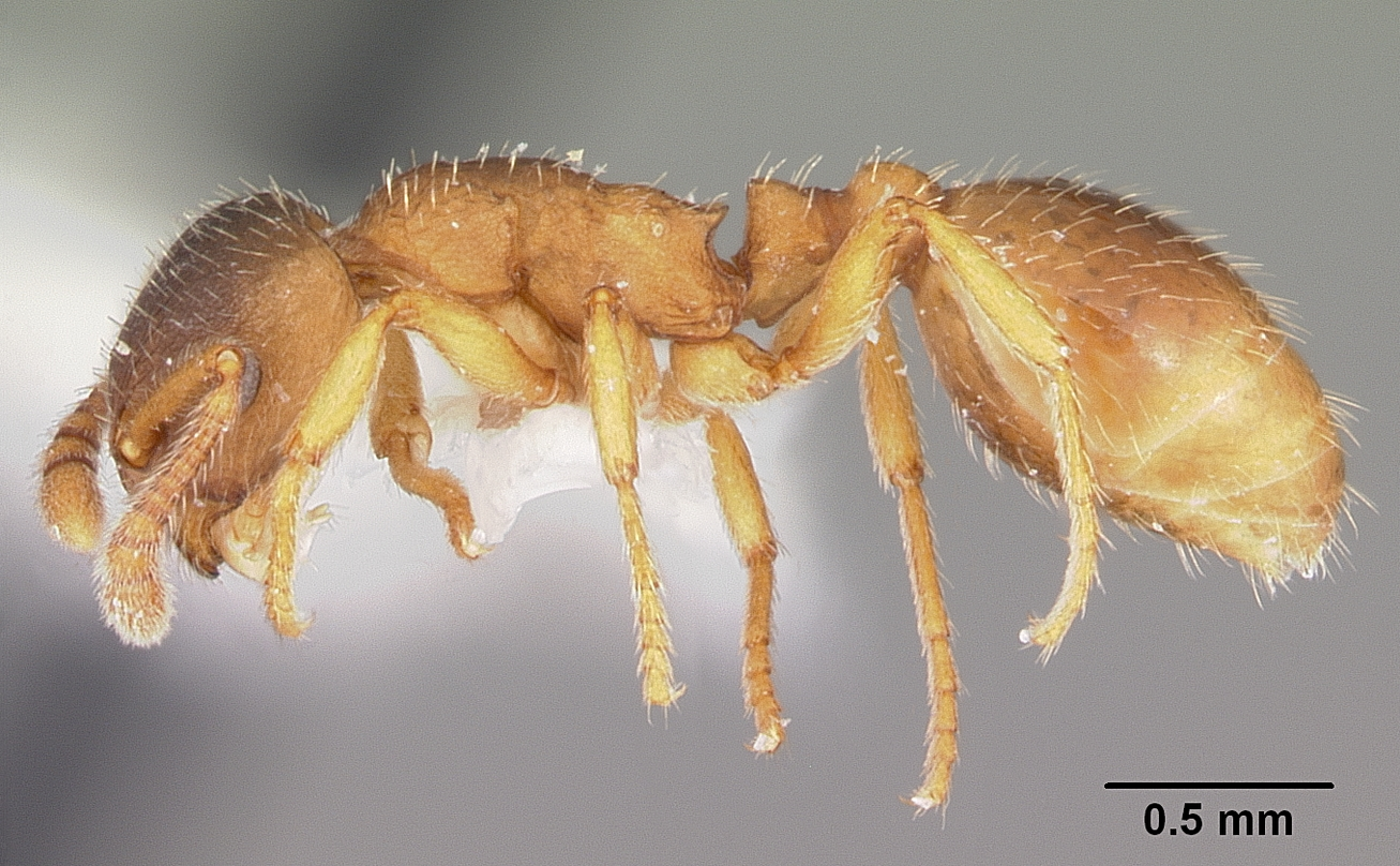 Profile view of ant Formicoxenus quebecensis specimen casent0104822.